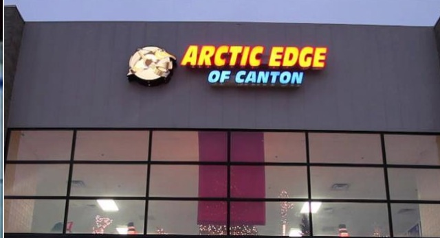 Picture of the Arctic Edge of Canton